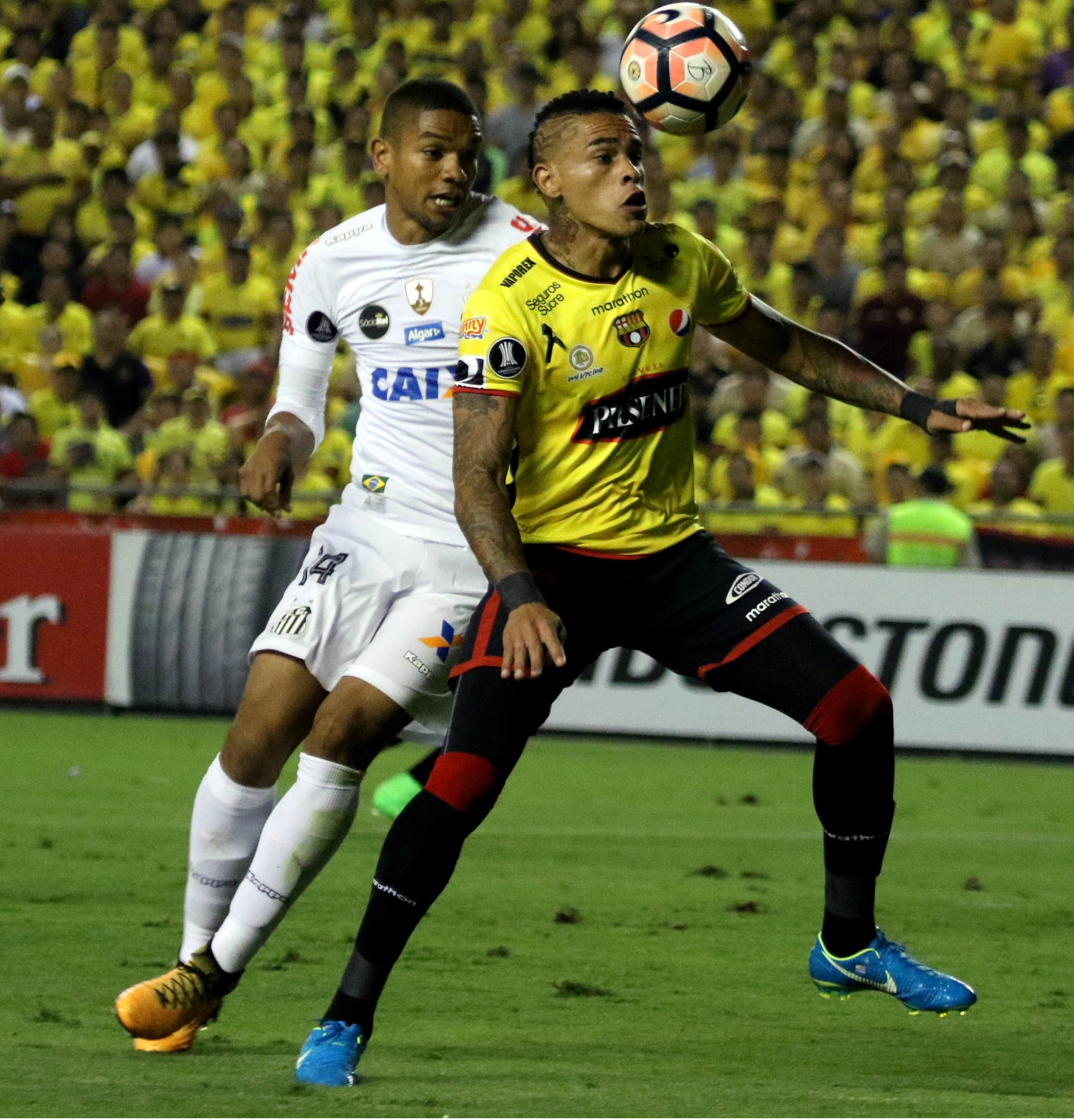 Guayaquil, 13 de septiembre del 2017 (Andes).-En el estadio Monumental Barcelona de Ecuador enfrenta al Santos de Brasil en partido de ida por cuartos de final de la Copa LibertadoresFoto:Andes/César Muñoz